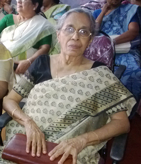 Sahodaran Ayyappan's Daughter Mrs.Aysha Ayyappan